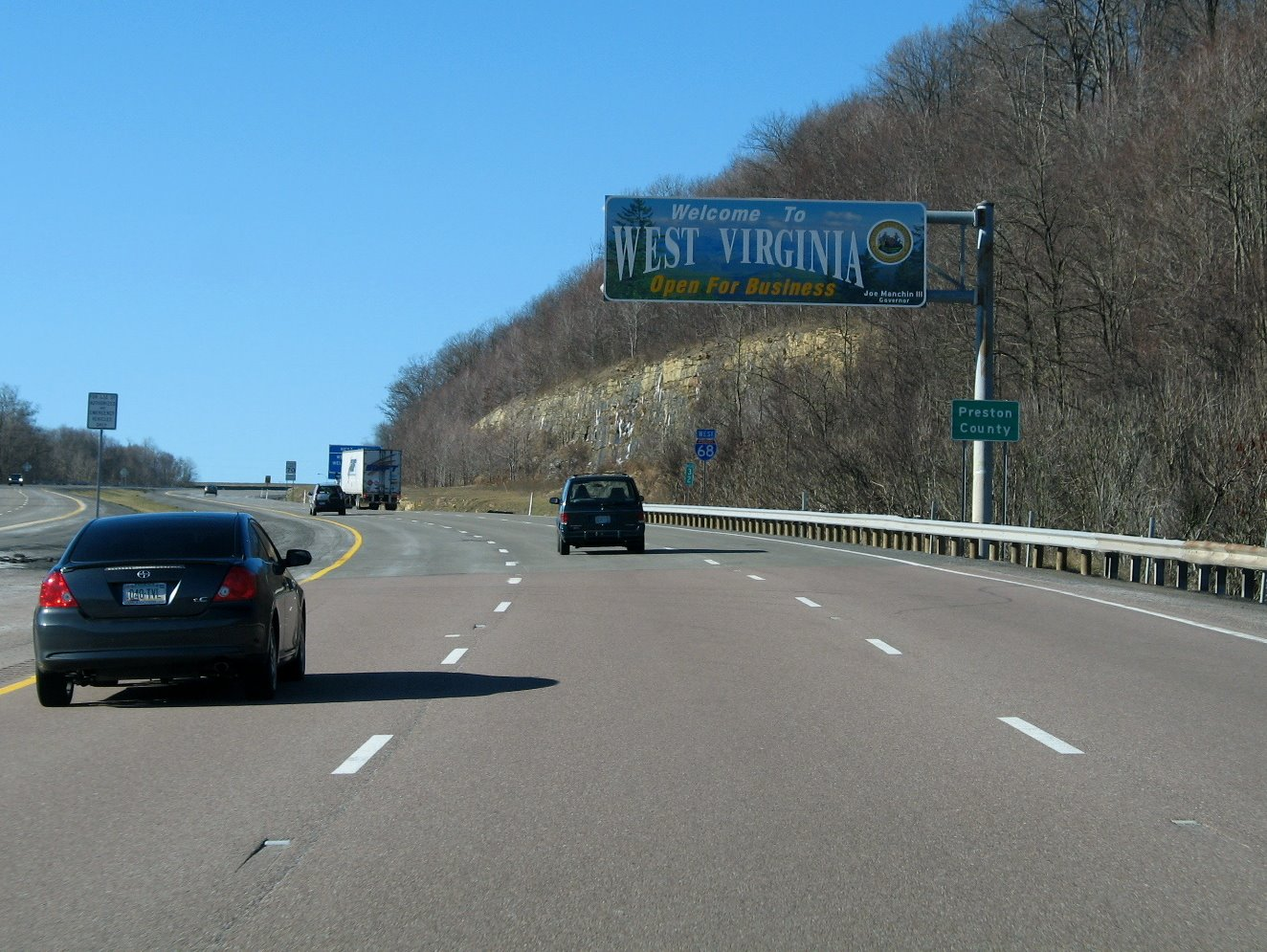 Entering West Virginia on Interstate 68